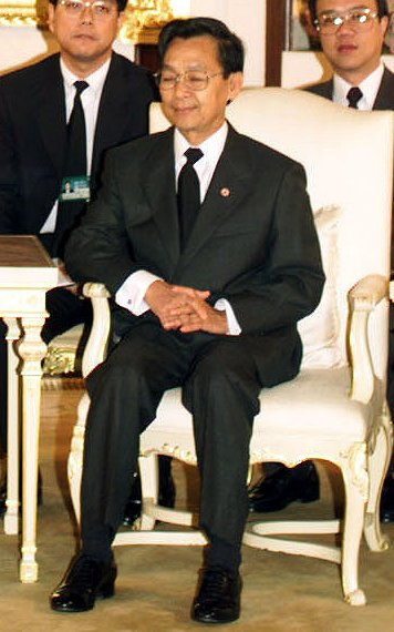 Thai Prime Minister Chuan Liakpai during a visit of US Secretary of Defense William Cohen in Bangkok, October 1, 1999.